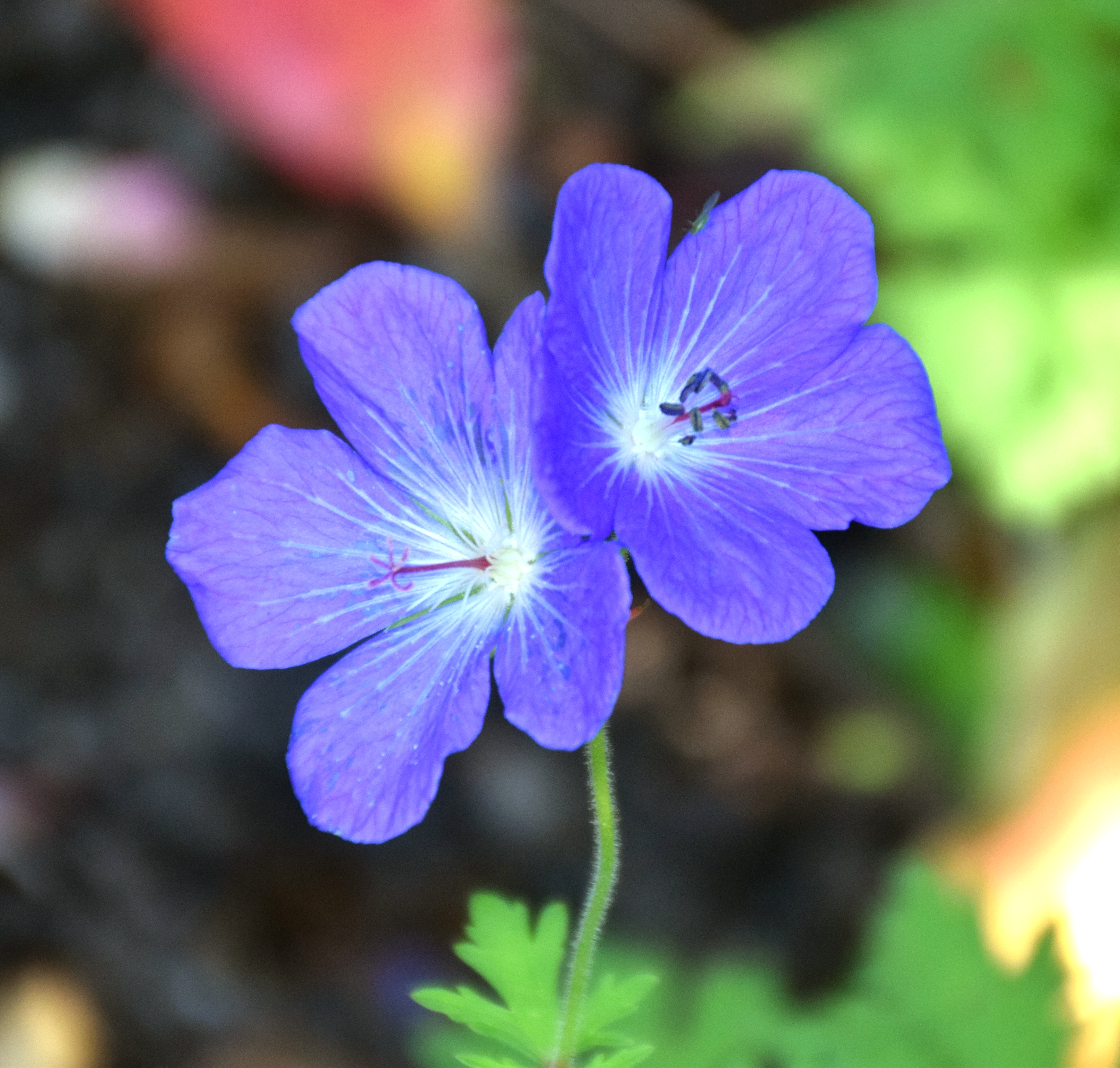 Geranium himalayense in Dunedin Botanic Garden, Dunedin, New Zealand